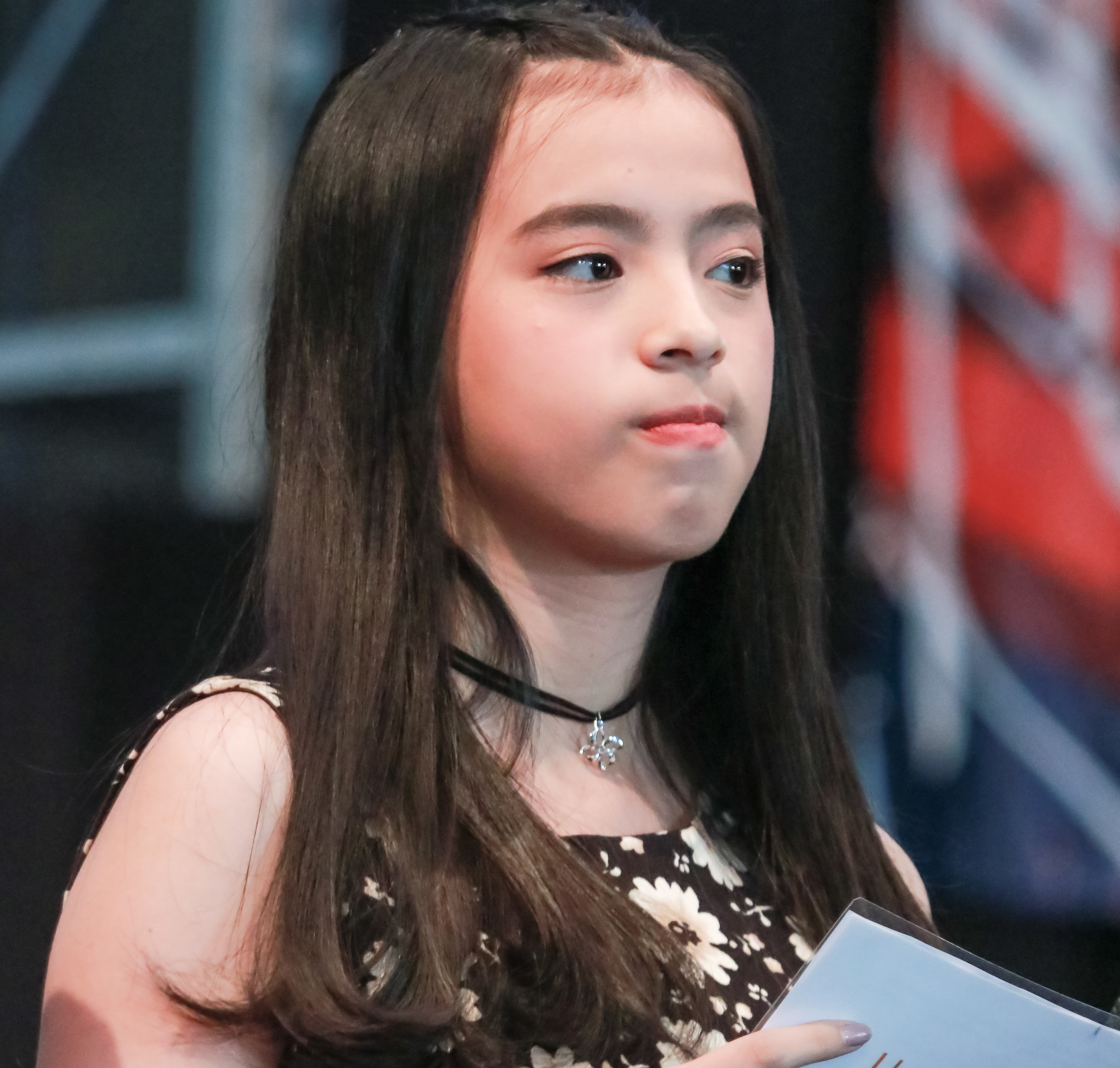 Shalza Grasita on 5 October 2019